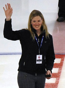 Opening face-off